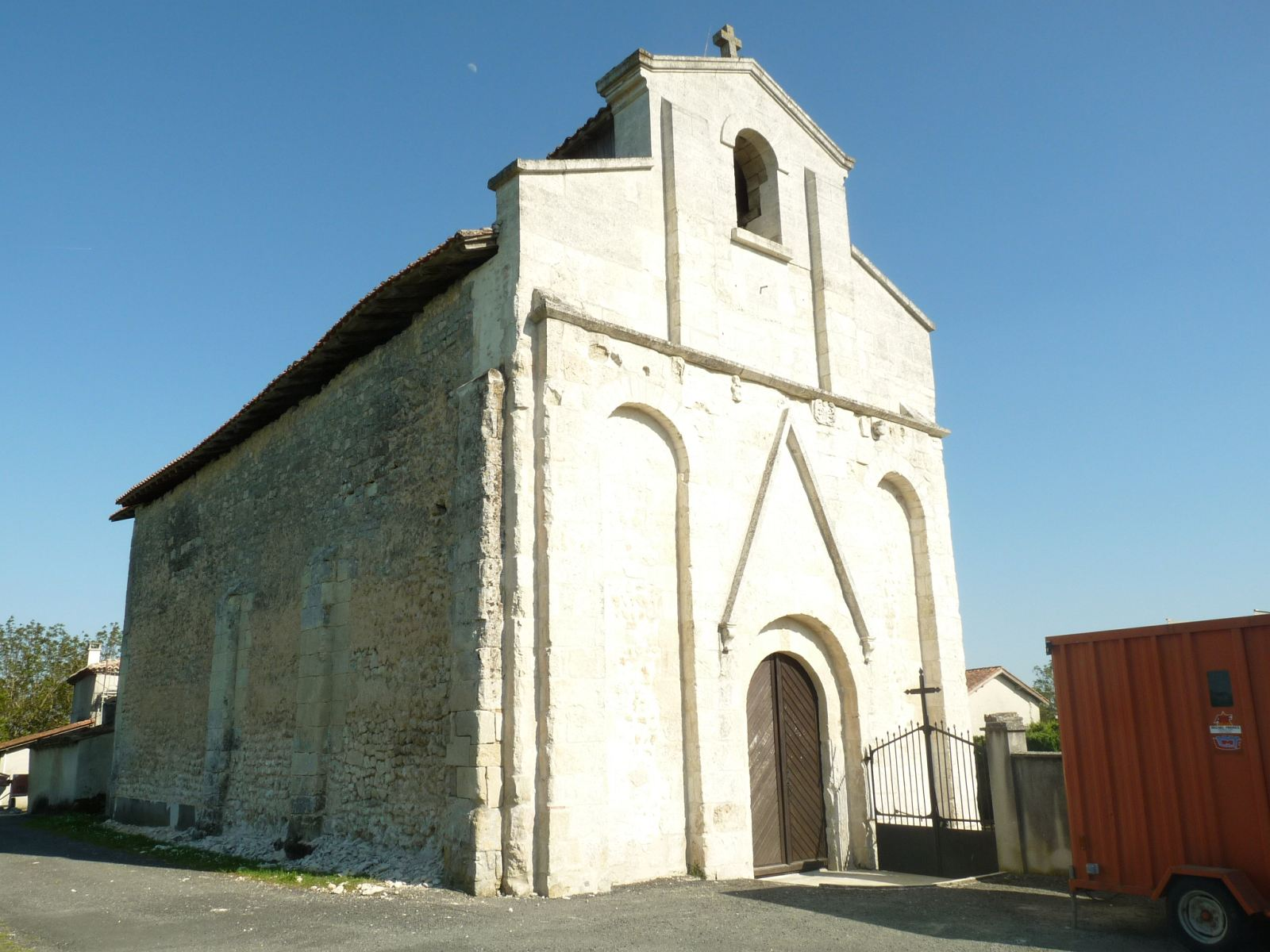 church of Vaux-Lavalette, Charente, SW France